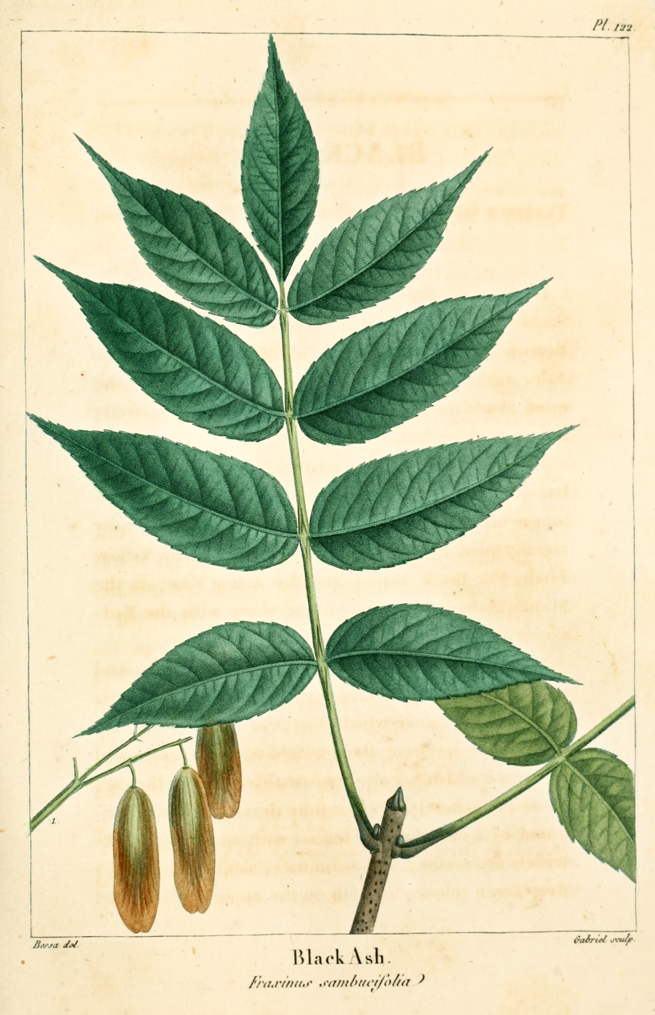 Plate xxx from The North American Sylva: Fraxinus nigra. (Original caption: Black Ash. Fraxinus sambucifolia.)